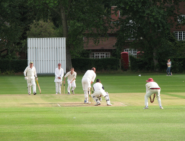 Cricket at Trinity Old Field The houses in the background are on Adams Road.